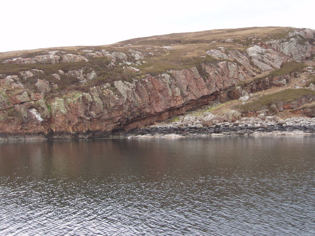 Eilean Mòr, Crowlin Islands The west coast of the largest of the Crowlin islands from the channel between Eilean Mòr and Eilean Beag. The islands are uninhabited but grazed by sheep.